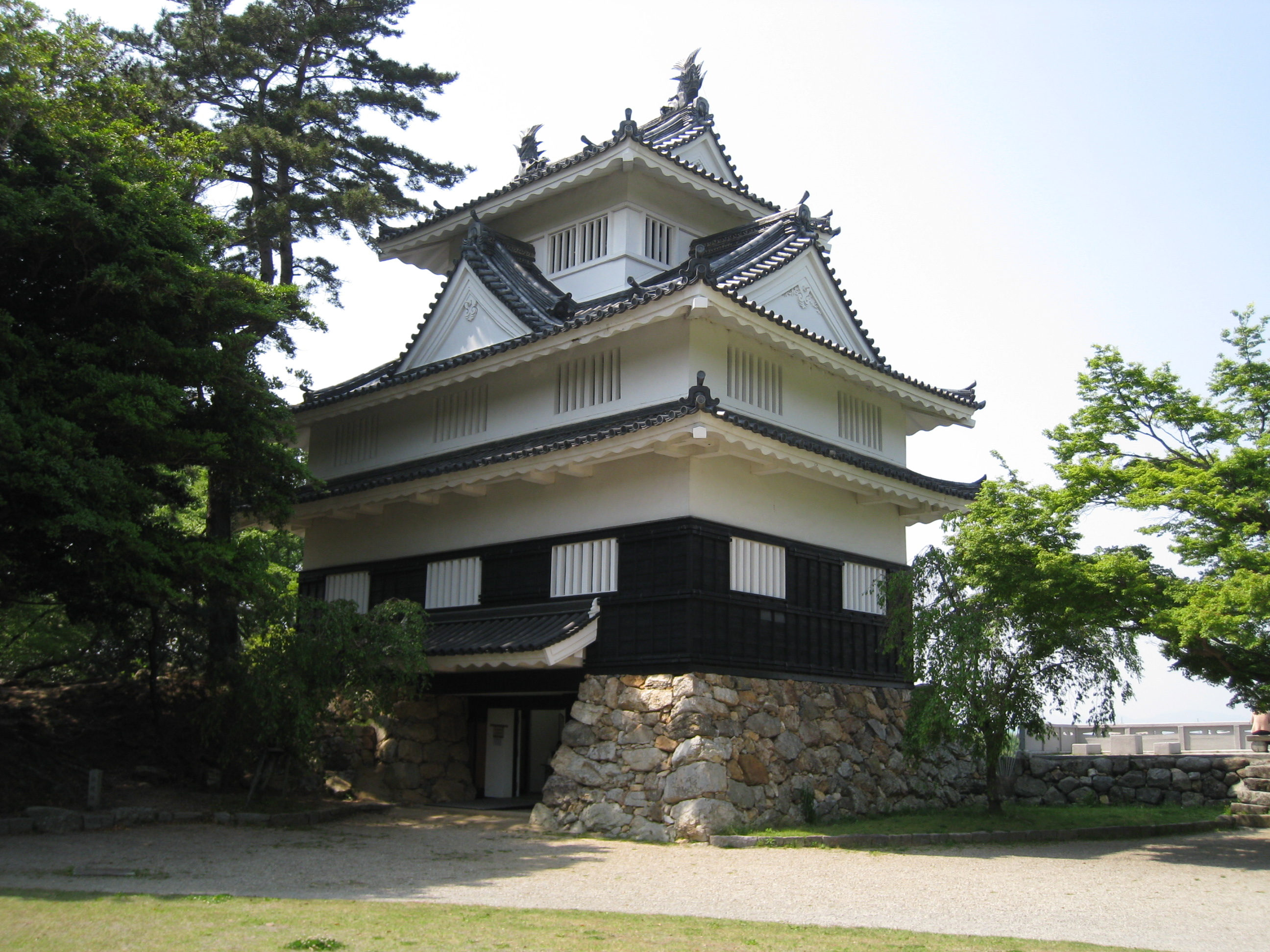 Yoshida Castle (吉田城), located at Imahashicho, Toyohashi, Aichi, Japan